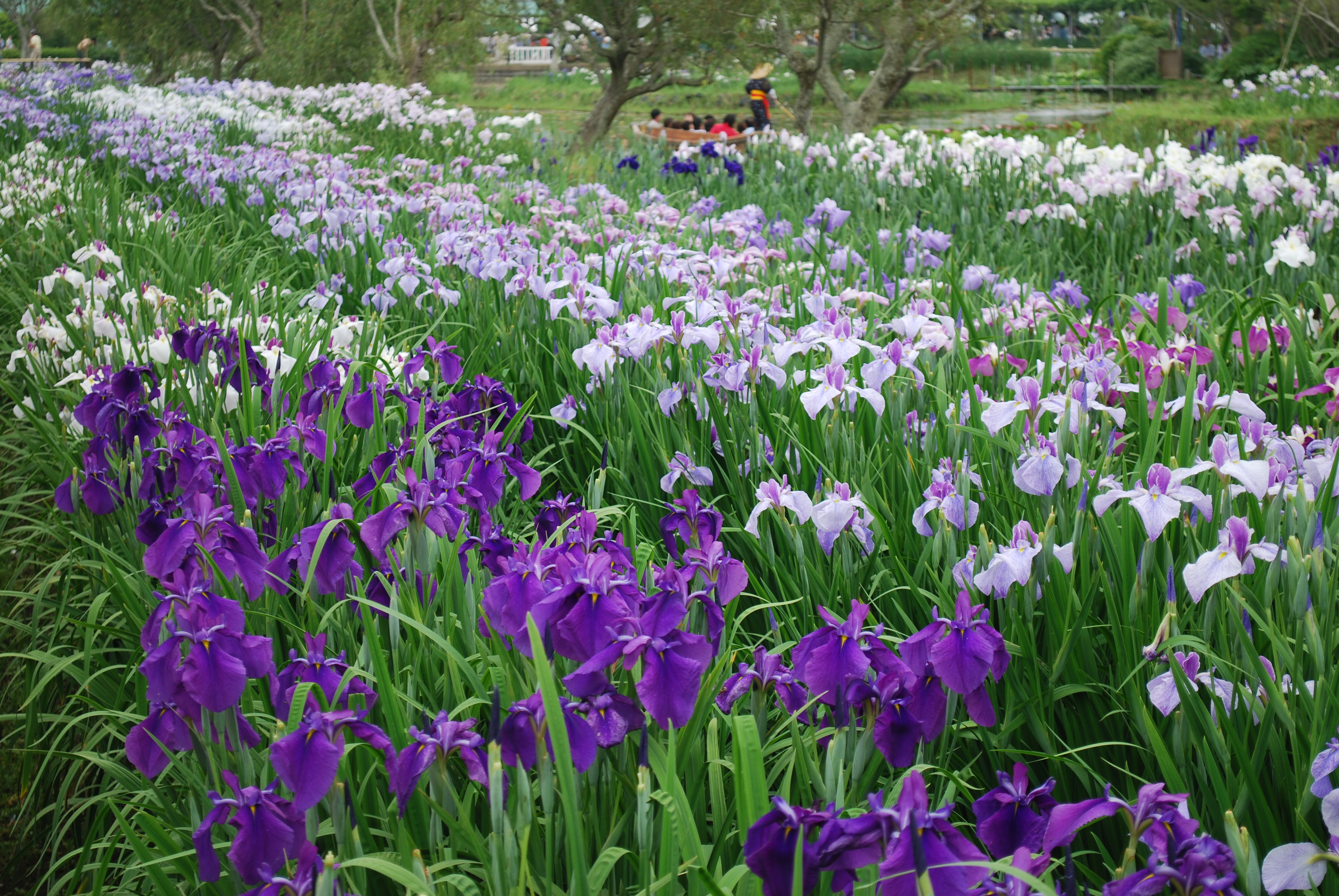 Suigo-Sawara-aquatic-botanical-garden3,iris,Katori-city,Japan